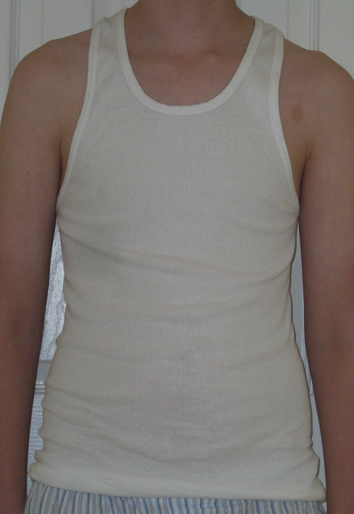 me in an a-shirt